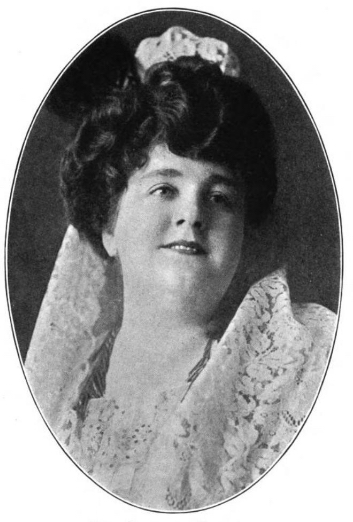 A white woman with dark hair and a round face, wearing a white lace mantilla – Bernice de Pasquali